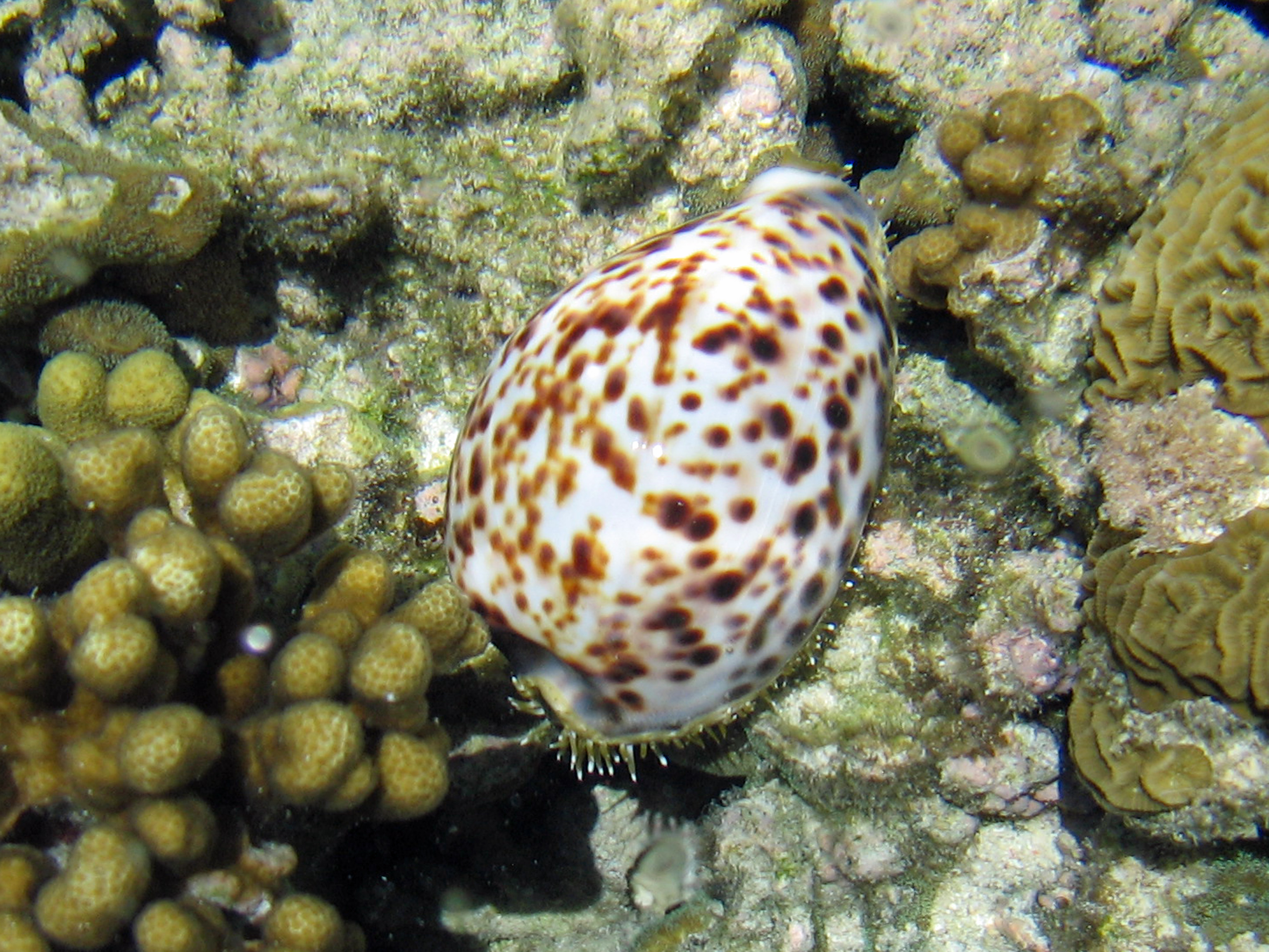 Live Cypraea tigris from Queensland, Australia.